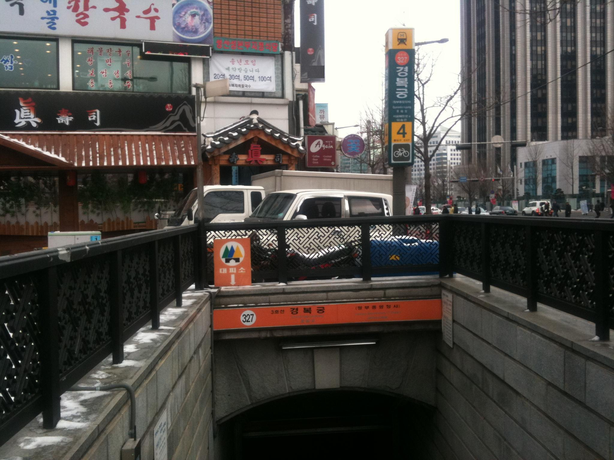 Gyeongbokgung Station (Seoul Subway Line 3.)